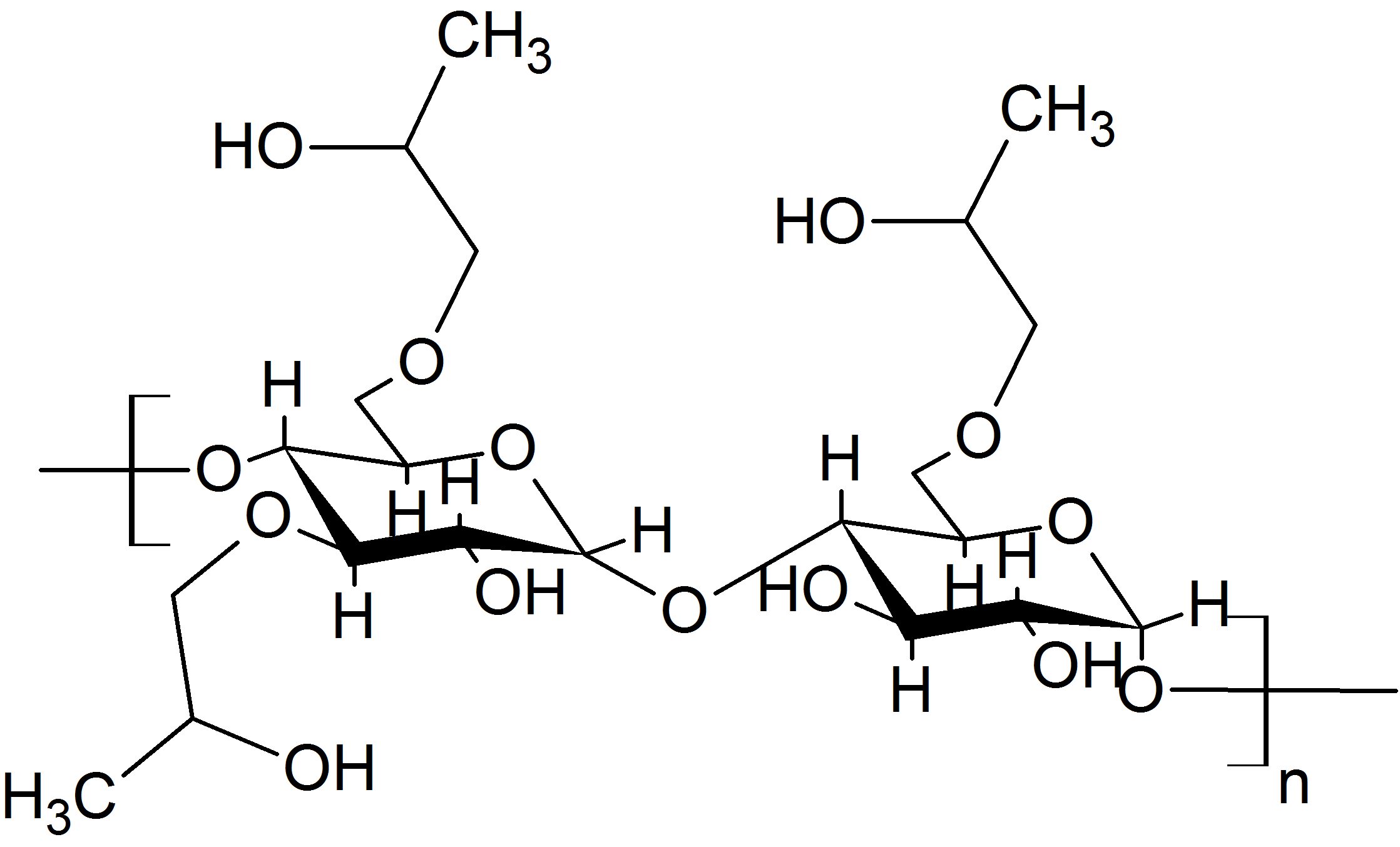 Hydroxypropyl starch